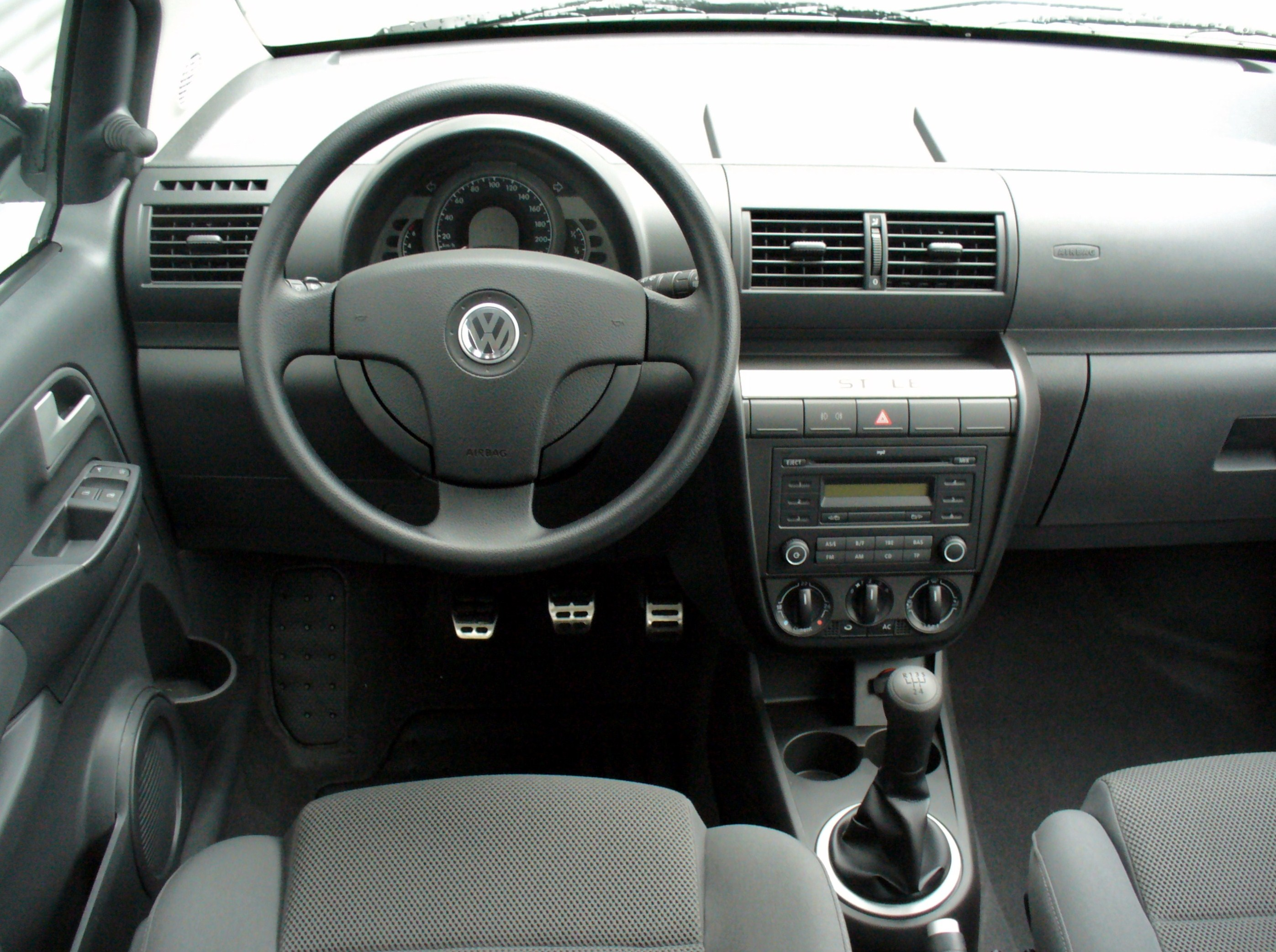 VW Fox Style